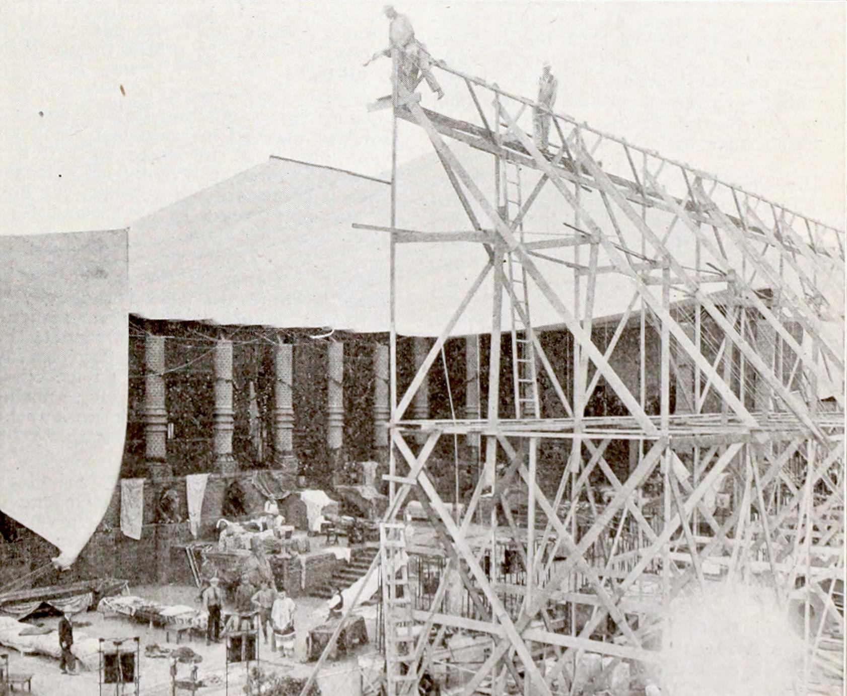 Still showing the construction of the set for Herod's banquet hall for the American drama film Salomé (1918), showing the overhead coverings erected to give the proper light for the scene where the dance takes place, on page 33 of the July 6, 1918 Exhibitors Herald.